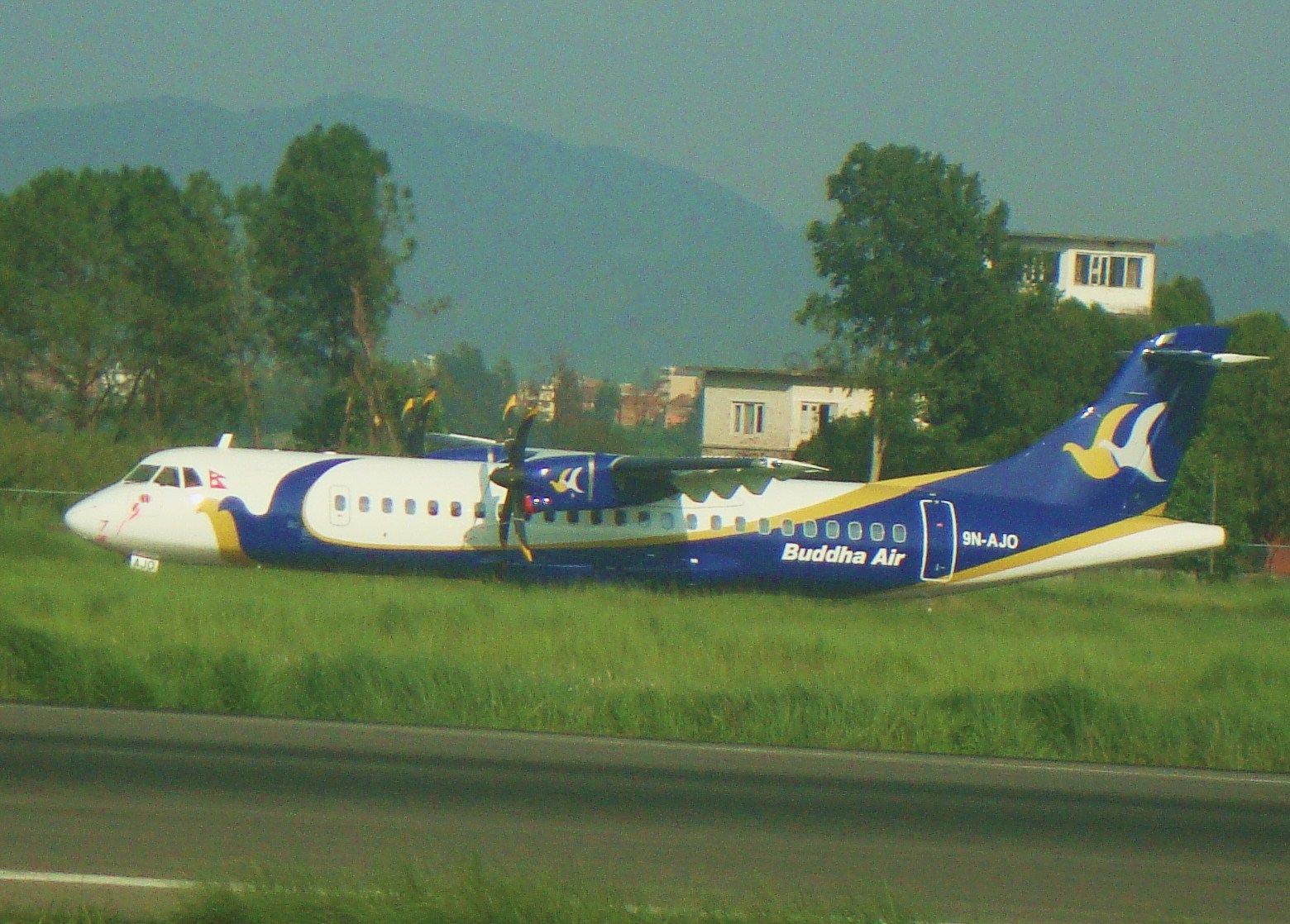 Buddha Air's first ATR 72-500, seen at Tribhuvan International Airport, Kathmandu, Nepal